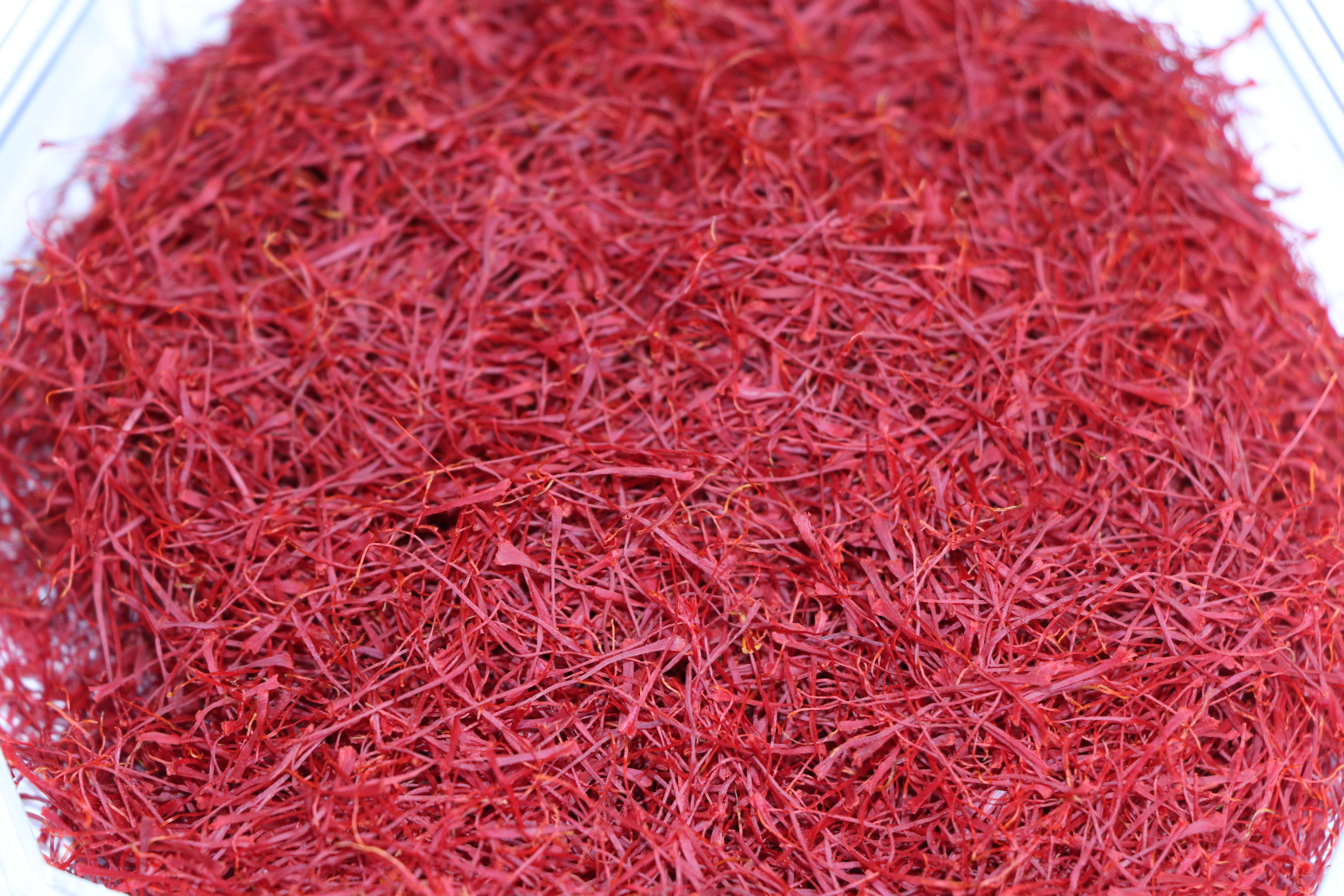 saffron-properties